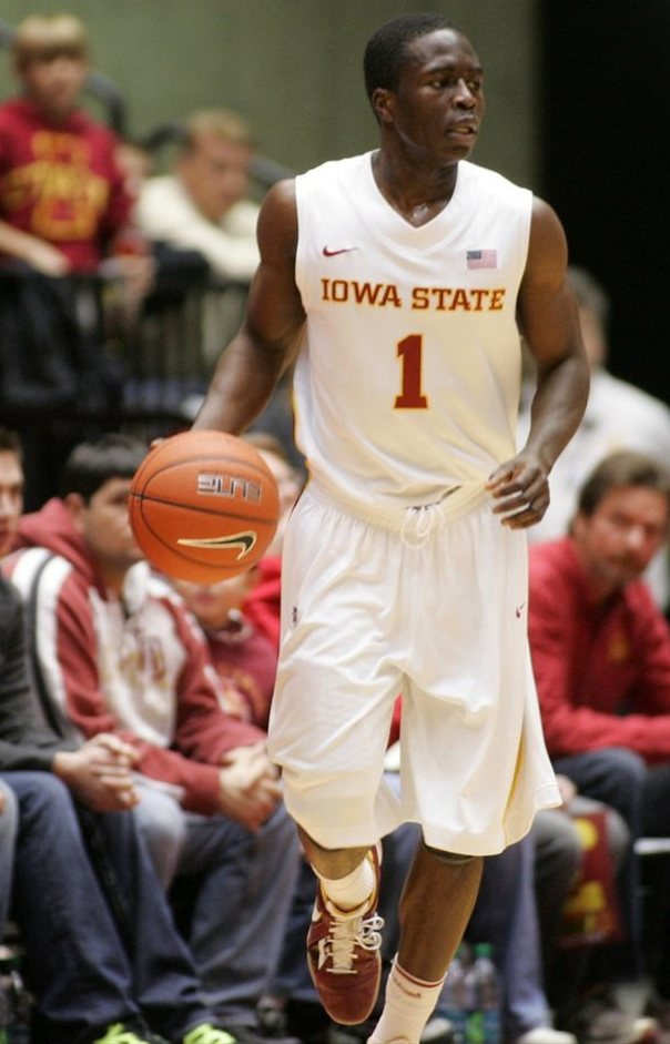 Bubu Palo dribbling for Iowa State